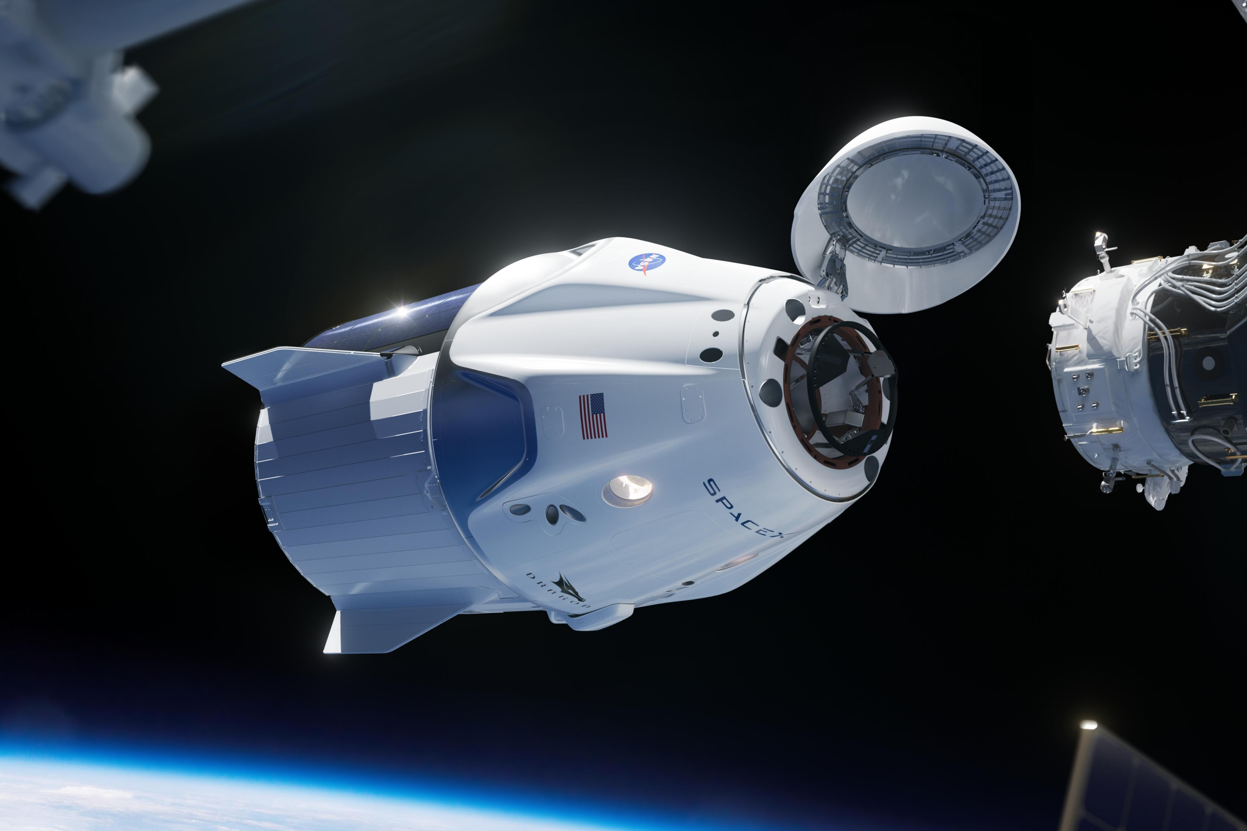 In this illustration, a SpaceX Crew Dragon spacecraft approaches the International Space Station for docking. NASA is partnering with Boeing and SpaceX to build a new generation of human-rated spacecraft capable of taking astronauts to the station and expanding research opportunities in orbit. SpaceX's upcoming Demo-1 flight test is part of NASA’s Commercial Crew Transportation Capability contract with the goal of returning human spaceflight launch capabilities to the United States.